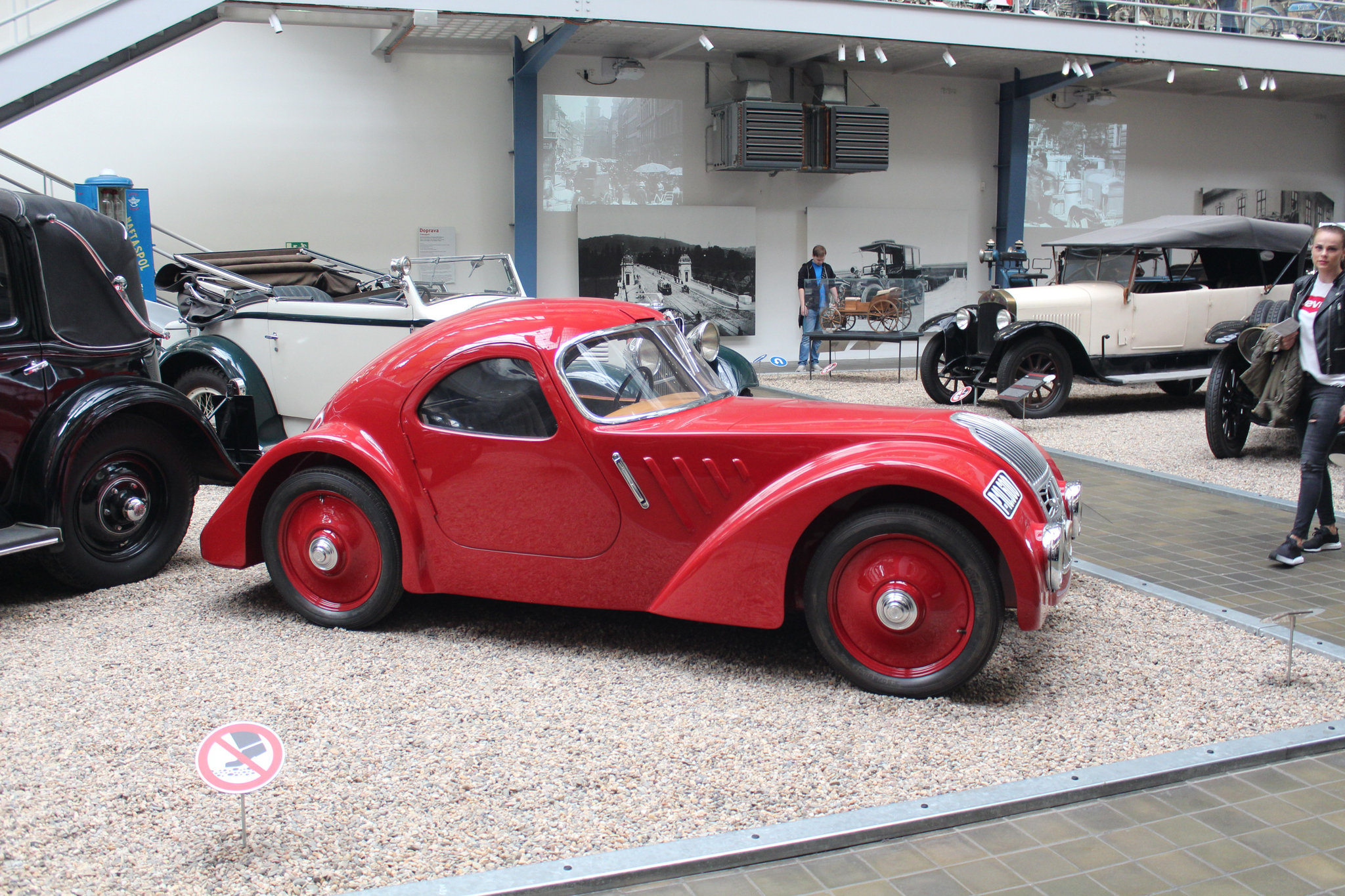 This image has been originally created as the illustration for Tšekin moottoripyörä entry in crosswords dictionary . It has been released under CC-BY-3.0 license.